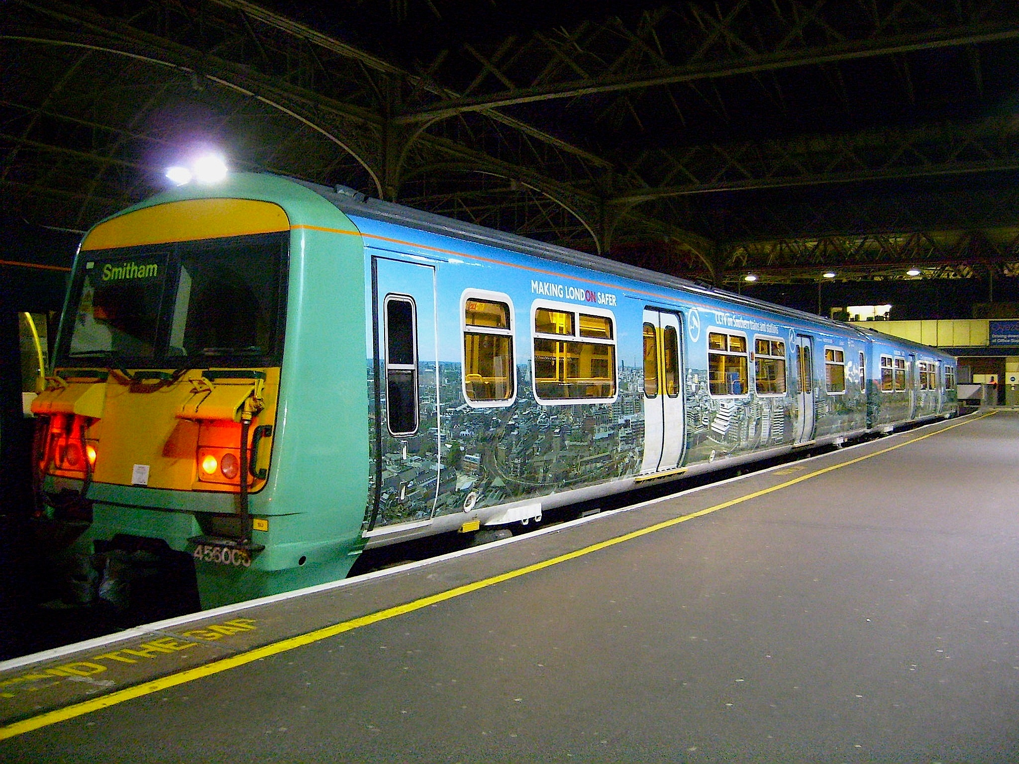 The joint Southern/TfL CCTV advertising livery on Southern Metro Class 456 No. 456006 at London Bridge.